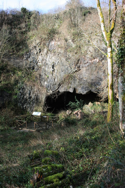 Higher Kiln Quarry Caves, Buckfastleigh. This is the entrance to Reed's Cave, taken in winter when the vegetation is less, unlike the summer growth in 1097493. It shows the cave entrance at the bottom of the old quarry face. Refer to the William Pengelly Cave Studies Trust website for more details